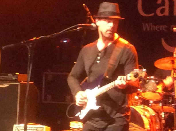 Guitarist and vocalist Doug Jackson on stage with the American band Ambrosia on May 24, 2014 at the Canyon Club in Agoura Hills, California